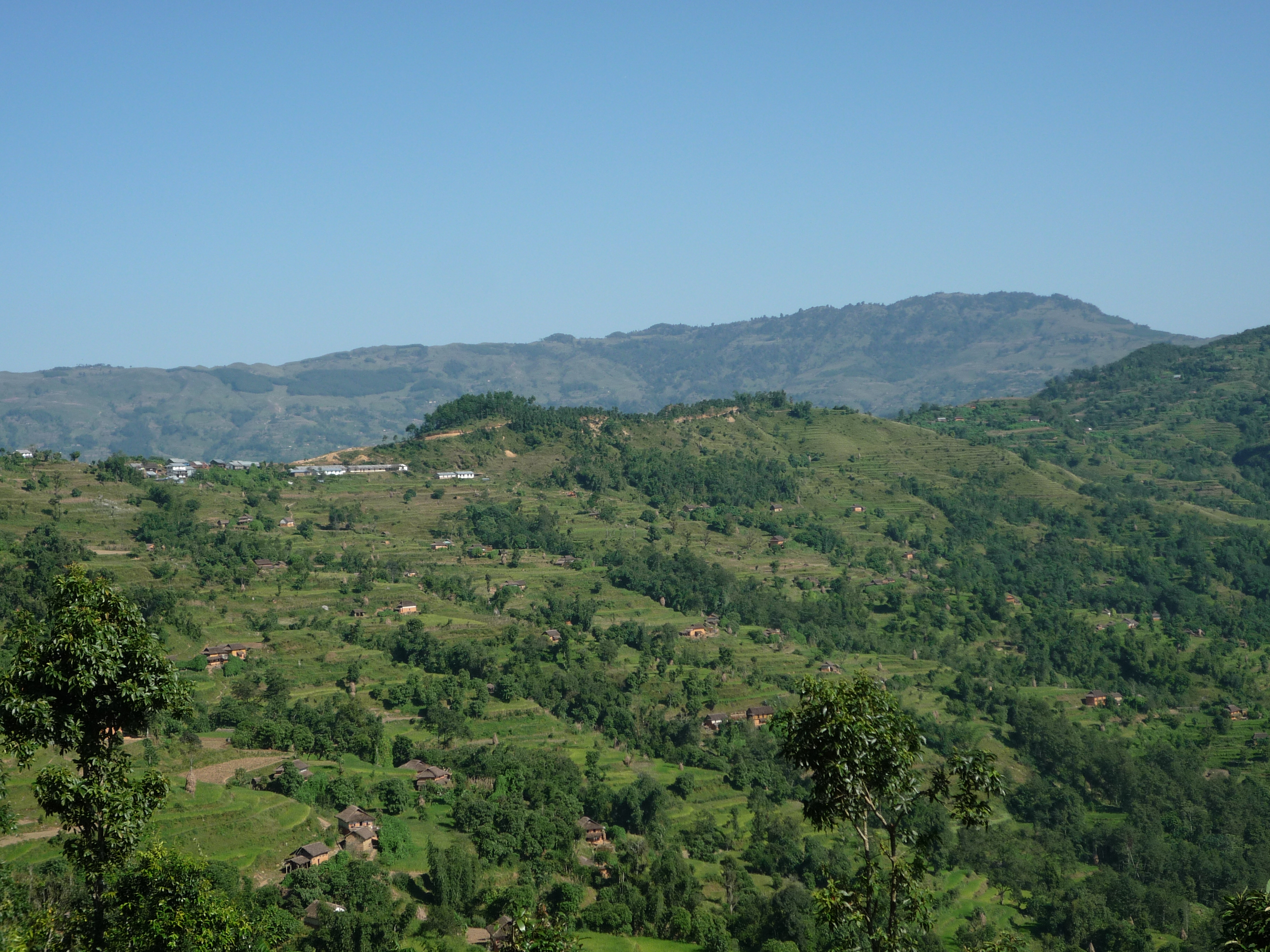 Balankha and surrounding villages.